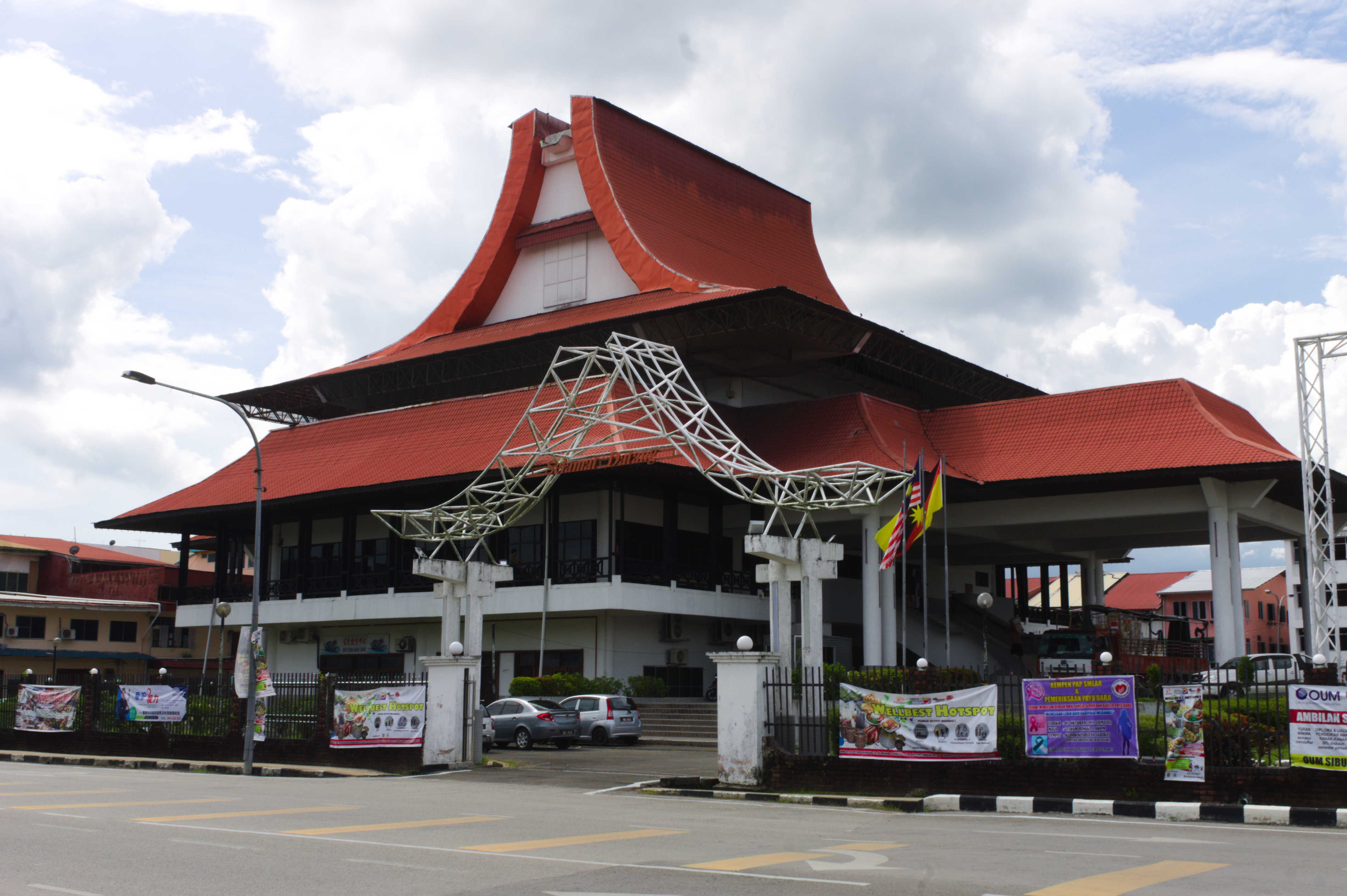 Sarikei community hall